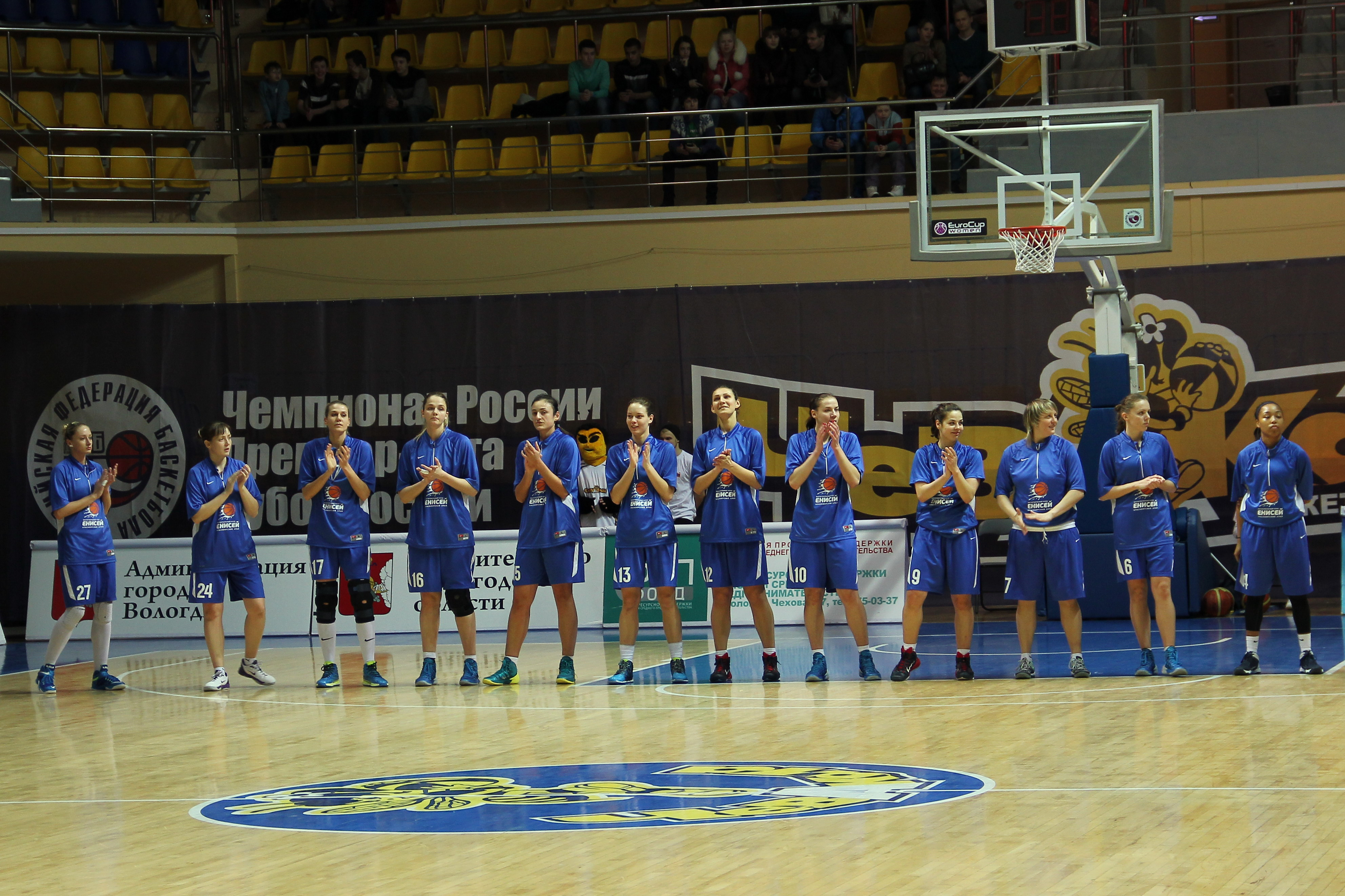 Russia, Women's basketball club «Yenisey» (Krasnoyarsk)